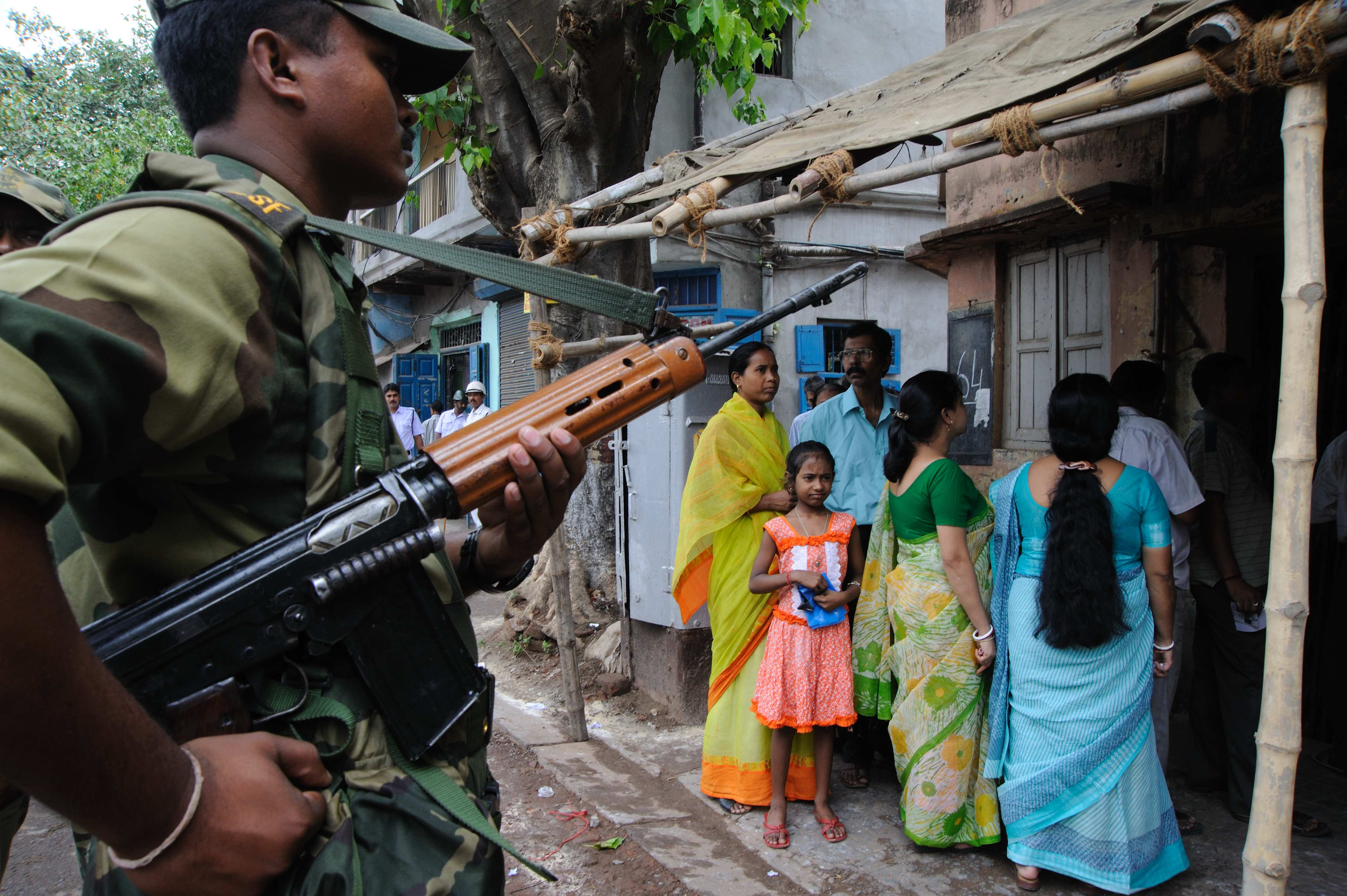 The vote was staggered over the course of a month for logistical and security reasons. In Kolkata, West Bengal